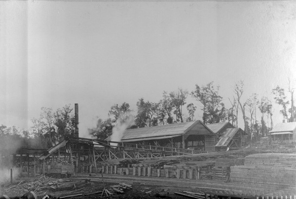 Wellington Mill, Western Australia, circa 1900: Exterior of mill